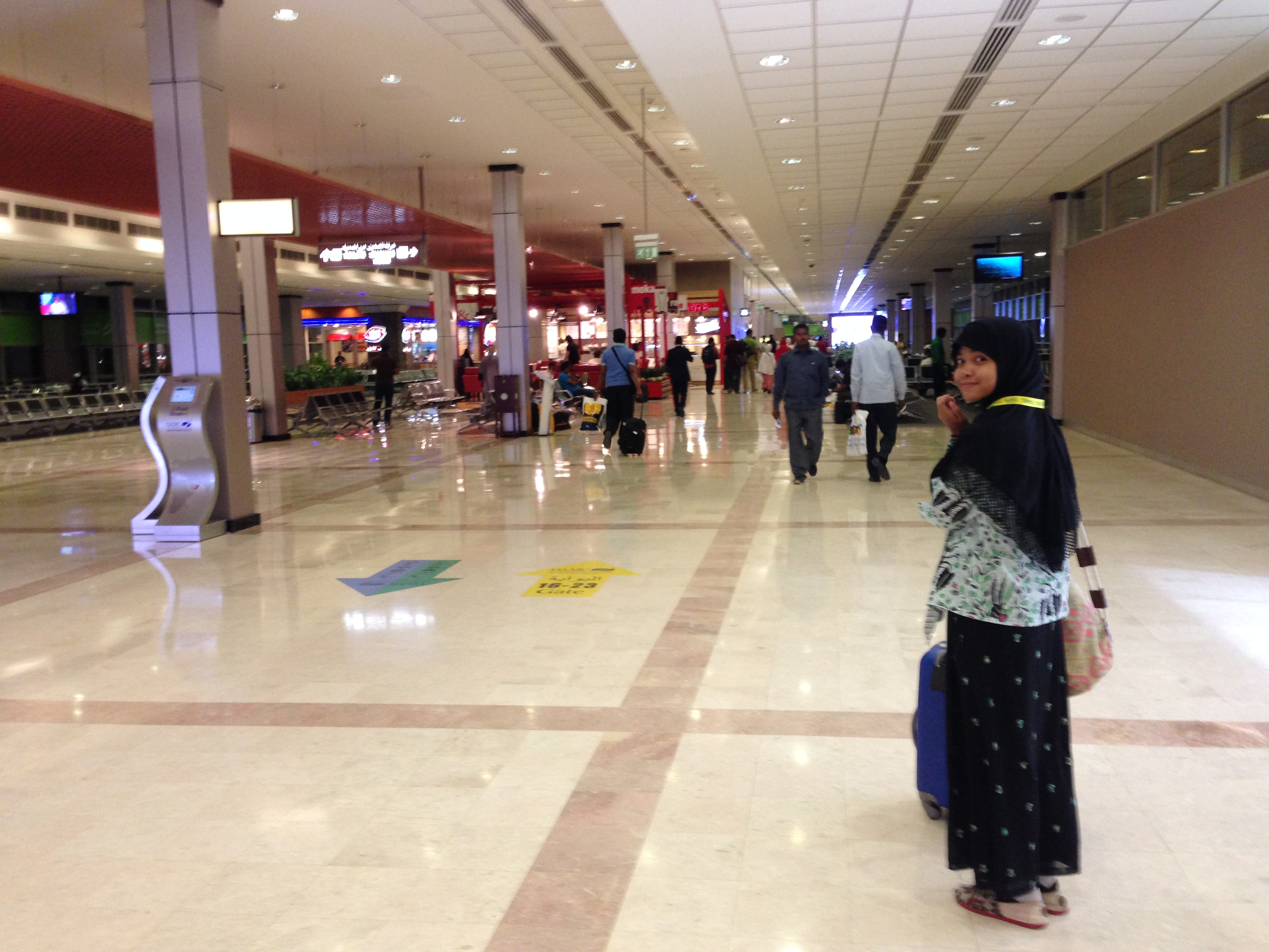 Interior of Muscat Airport, Oman